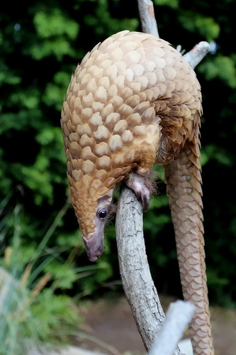 Tree pangolin (Manis tricuspis), San Diego Zoo, 03.2012